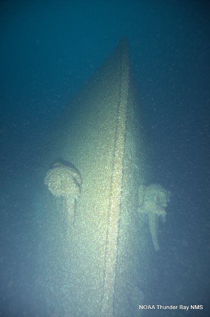 Wreck of the freighter Etruria